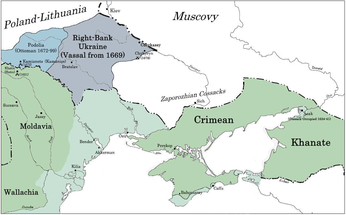 A map depicting the northern frontier of the Ottoman Empire during the seventeenth century.